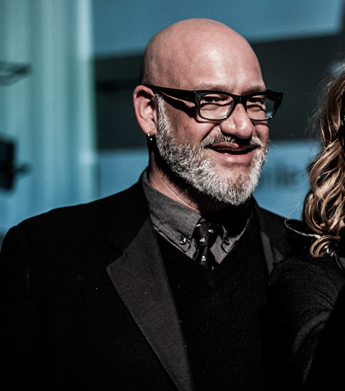 Event: Meet the Media Guru | David Pescovitz Date: 27 March 2014 Venue: Mediateca Santa Teresa- Milan, Italy Twitter: @mmguru / #MMGPescovitz Photo by Massimo Demelas